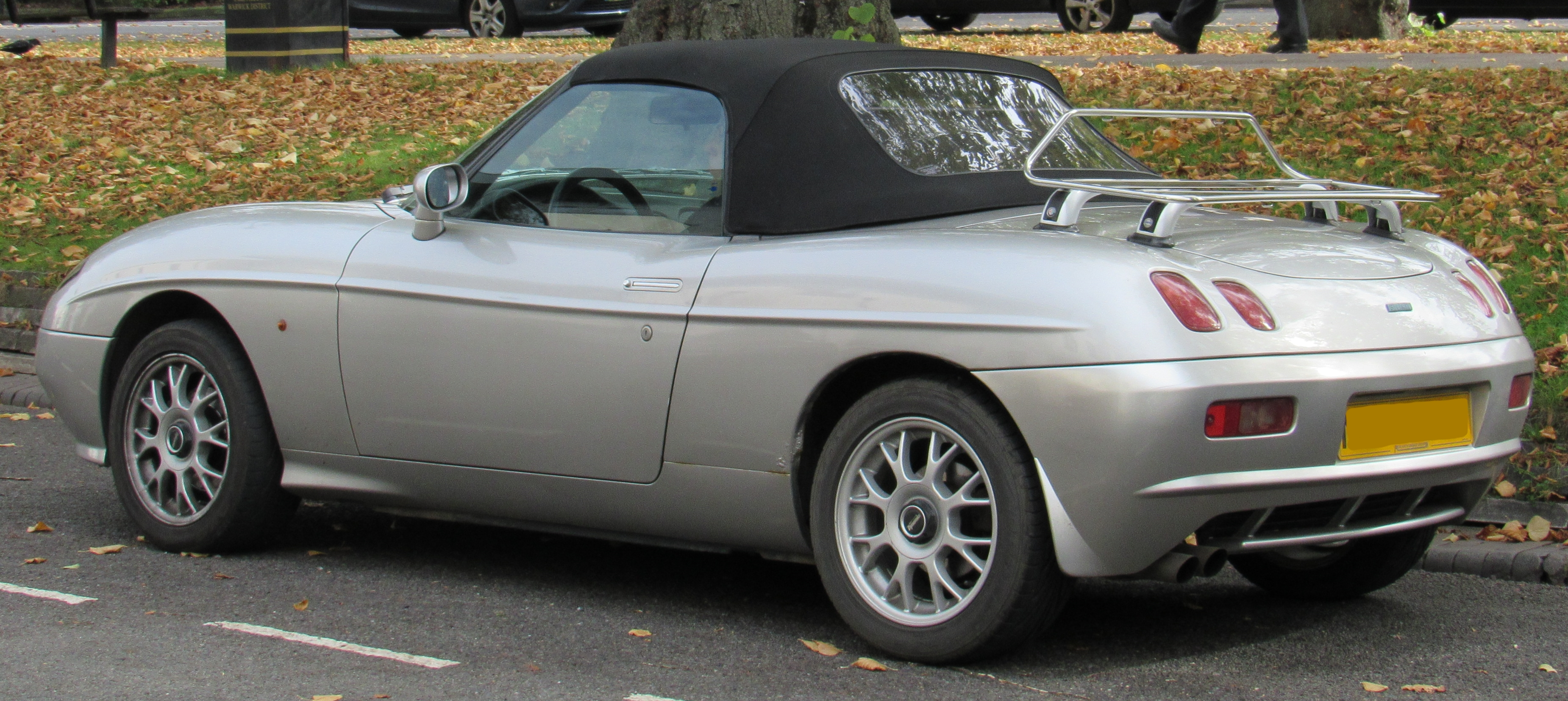 1996 Fiat Barchetta 1.7 Rear Taken in Leamington Spa